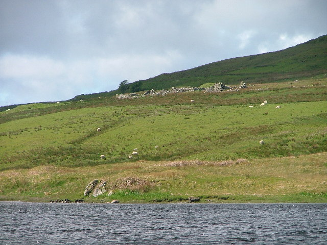 Sean-Ghairt. Former crofting community on the western bank of Loch Finlaggan